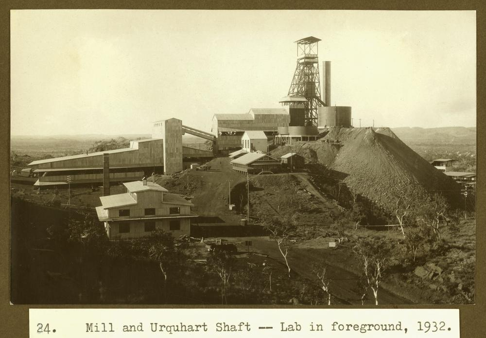 Mill and Urquhart Shaft, showing the laboratory building in the foreground, Mt. Isa Mines, 1932